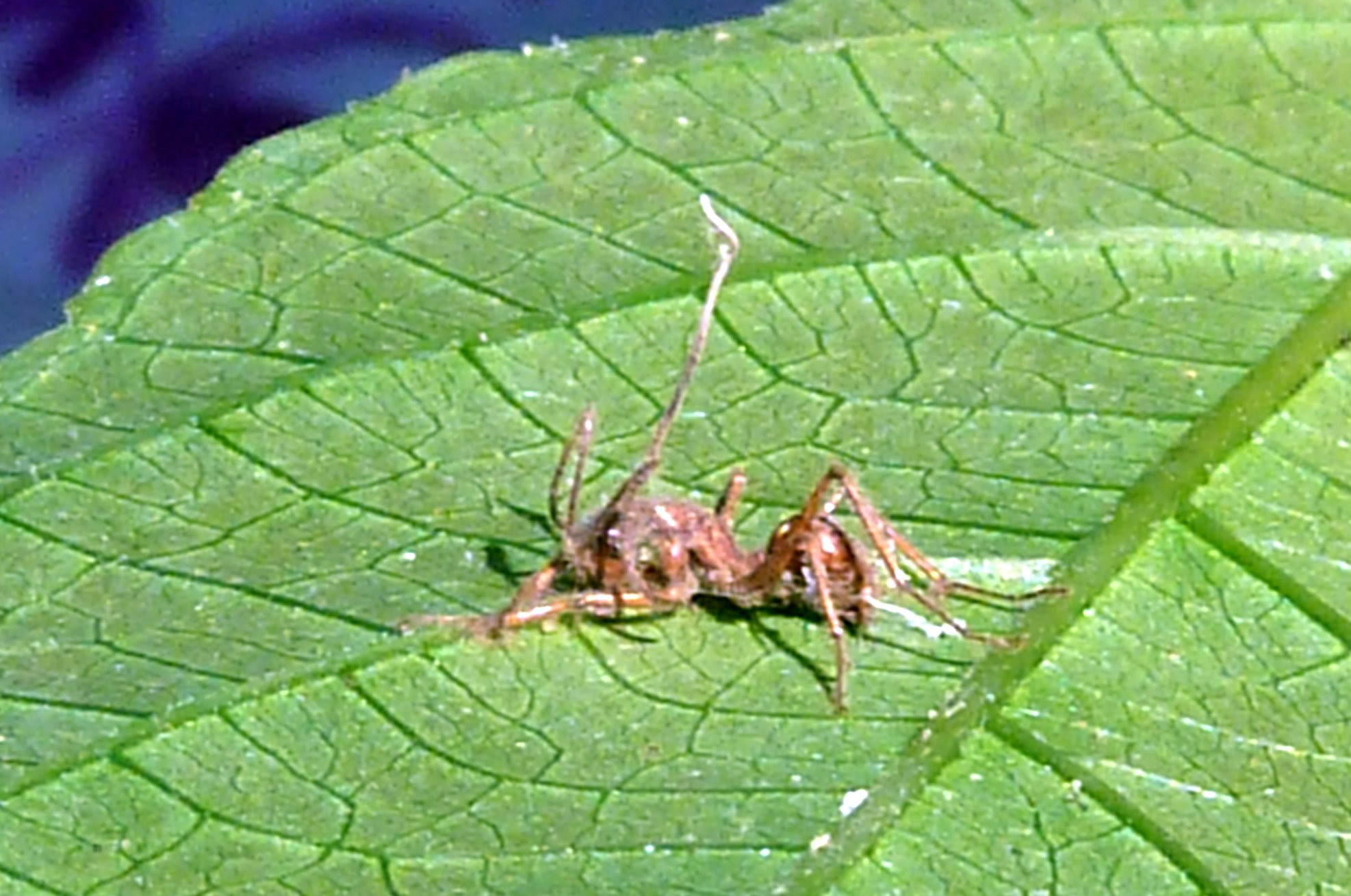 Ant infected with Cordyceps